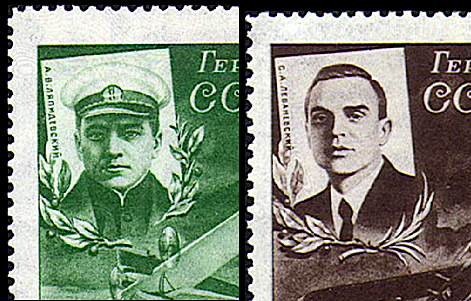 USSR airmail stamps, 1935, pilots Liapidevsky and Levanevsky, 5 and 10 kopecks, details